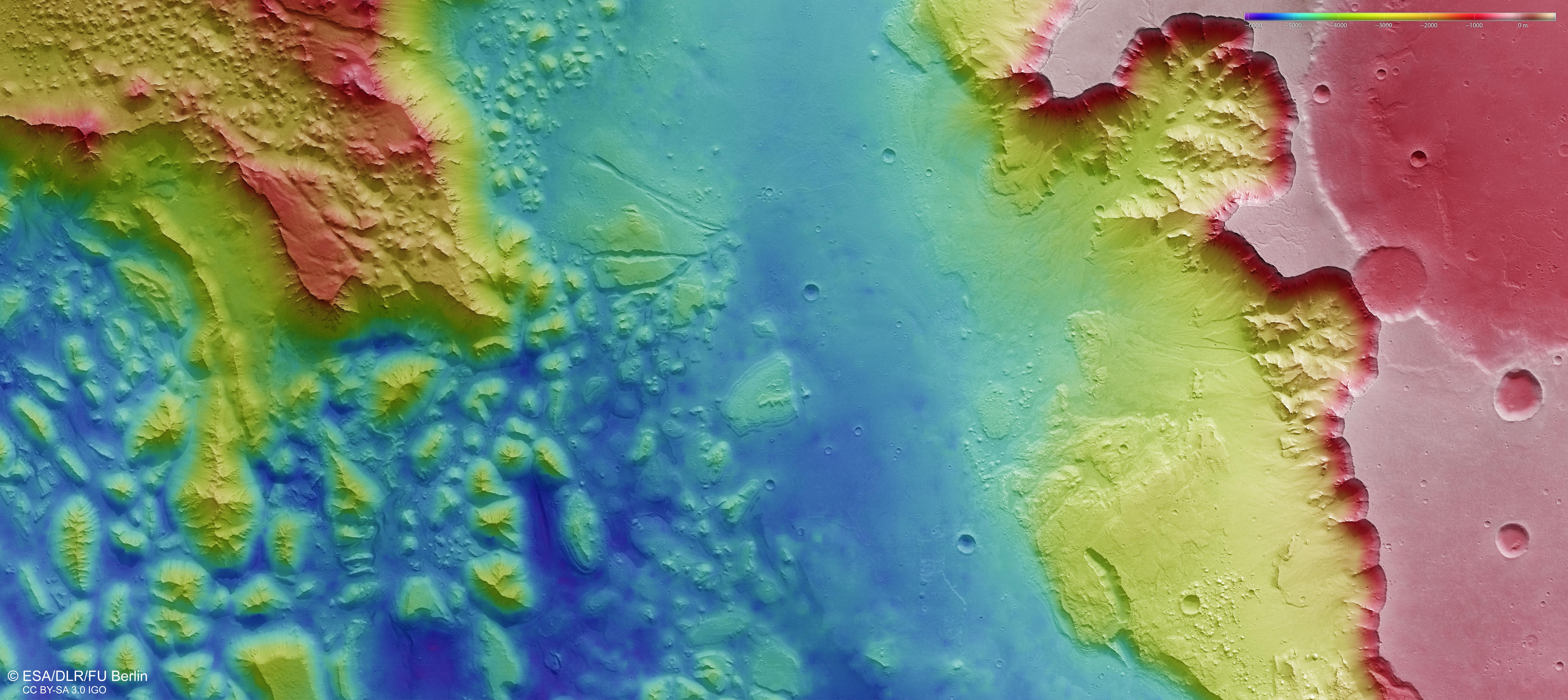 The colour-coded topographic view shows relative heights and depths of terrain in the Aurorae Chaos and Ganges Chasma region Mars. Red/white represents the highest terrain, and blues and purples show lower terrain. The image is based on a digital terrain model of the region, from which the topography of the landscape can be derived. The region was imaged by the High Resolution Stereo Camera on Mars Express on 16 July 2015 during orbit 14653. The image is centred on 8ºS/320ºE. The ground resolution is about 17 m per pixel. Credit: ESA/DLR/FU Berlin, CC BY-SA 3.0 IGO Copyright notice: Where expressly stated, images are licensed under the Creative Commons Attribution-ShareAlike 3.0 IGO (CC BY-SA 3.0 IGO) licence. The user is allowed to reproduce, distribute, adapt, translate and publicly perform it, without explicit permission, provided that the content is accompanied by an acknowledgement that the source is credited as ‘ESA/DLR/FU Berlin’, a direct link to the licence text is provided and that it is clearly indicated if changes were made to the original content. Adaptation/translation/derivatives must be distributed under the same licence terms as this publication.